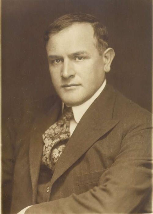 Niko Zupanič (1876-1961)